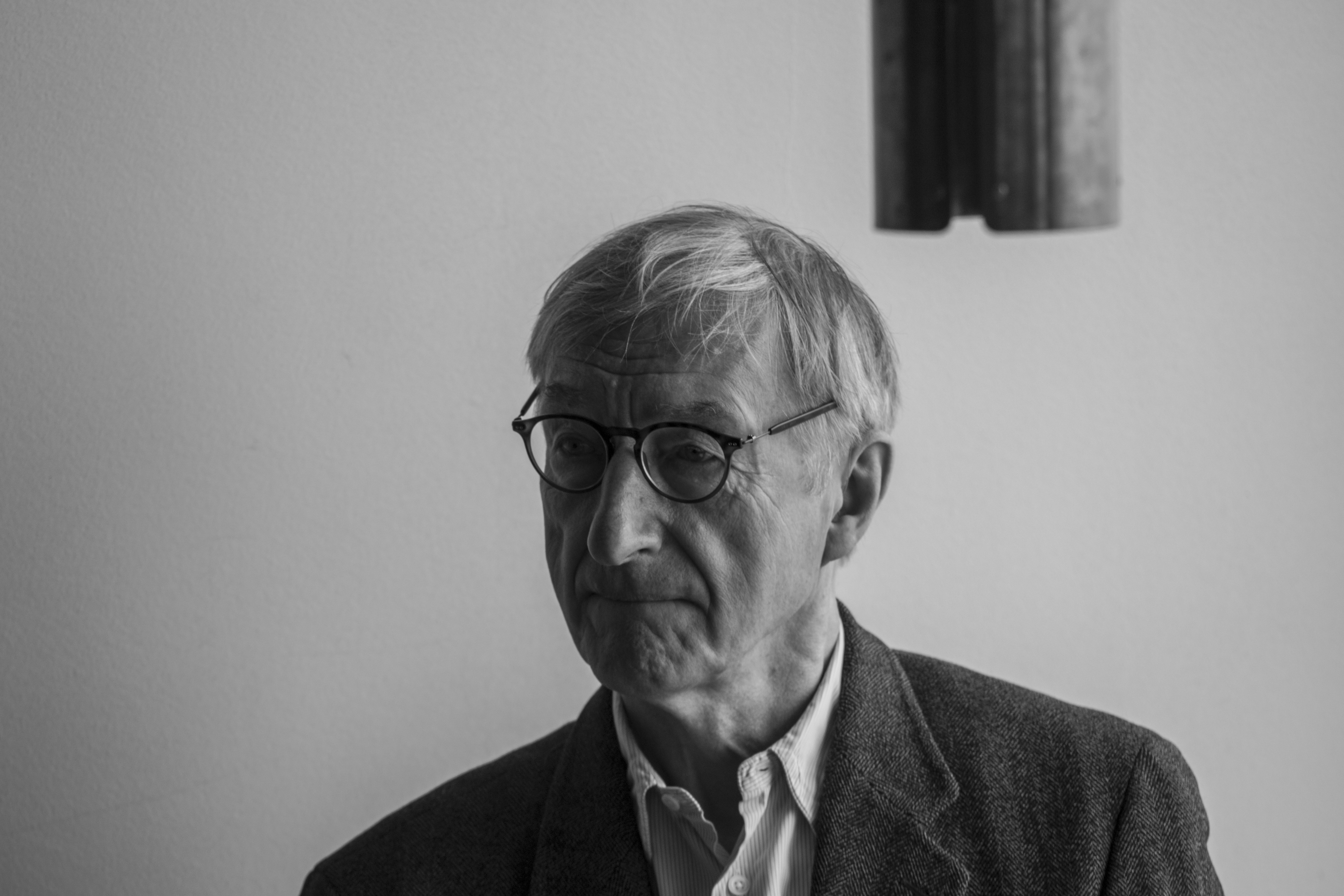 Julian Barnes at HeadRead Literary festival in Tallinn, May 2019